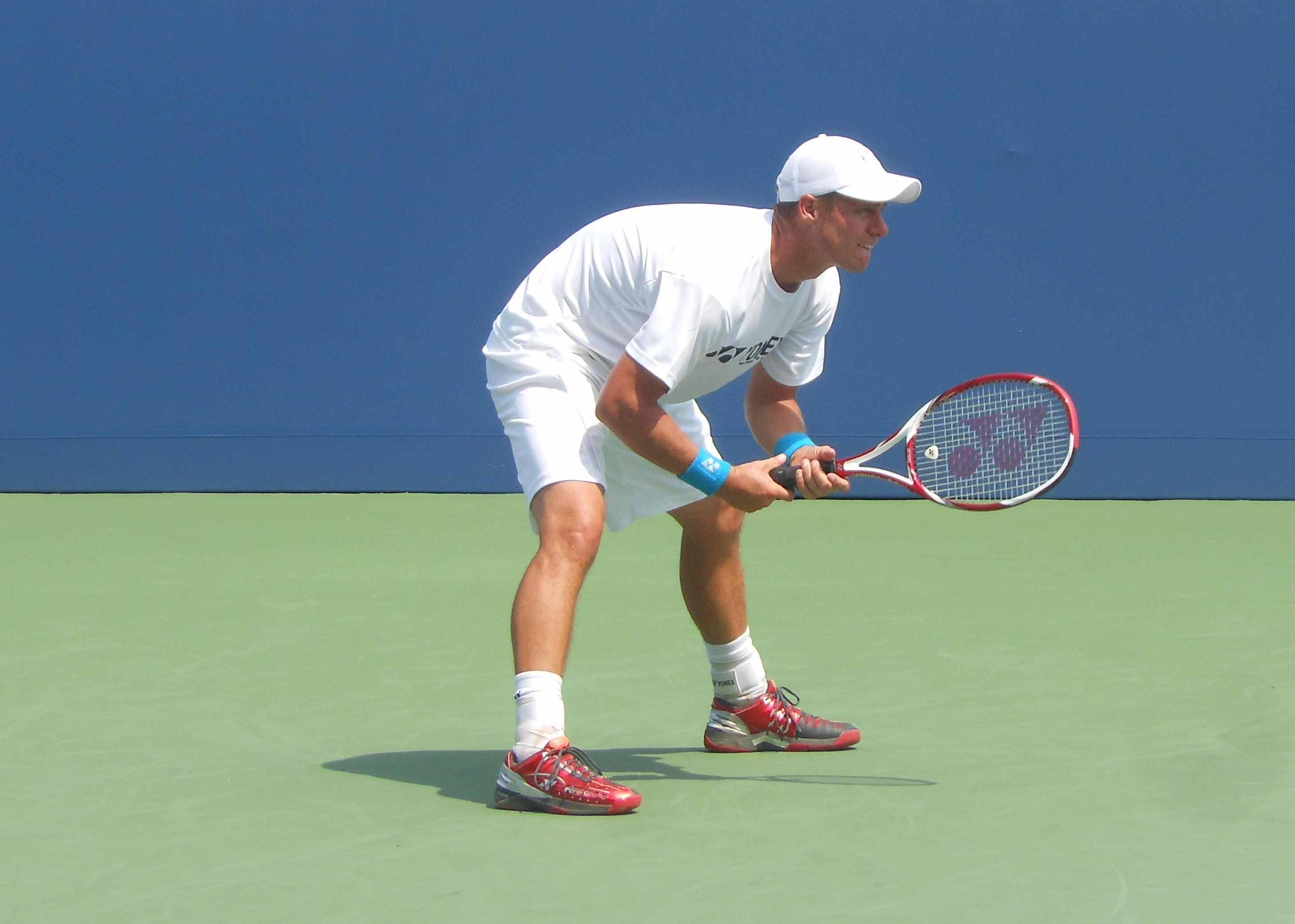 Lelyton Hewitt practices at US Open